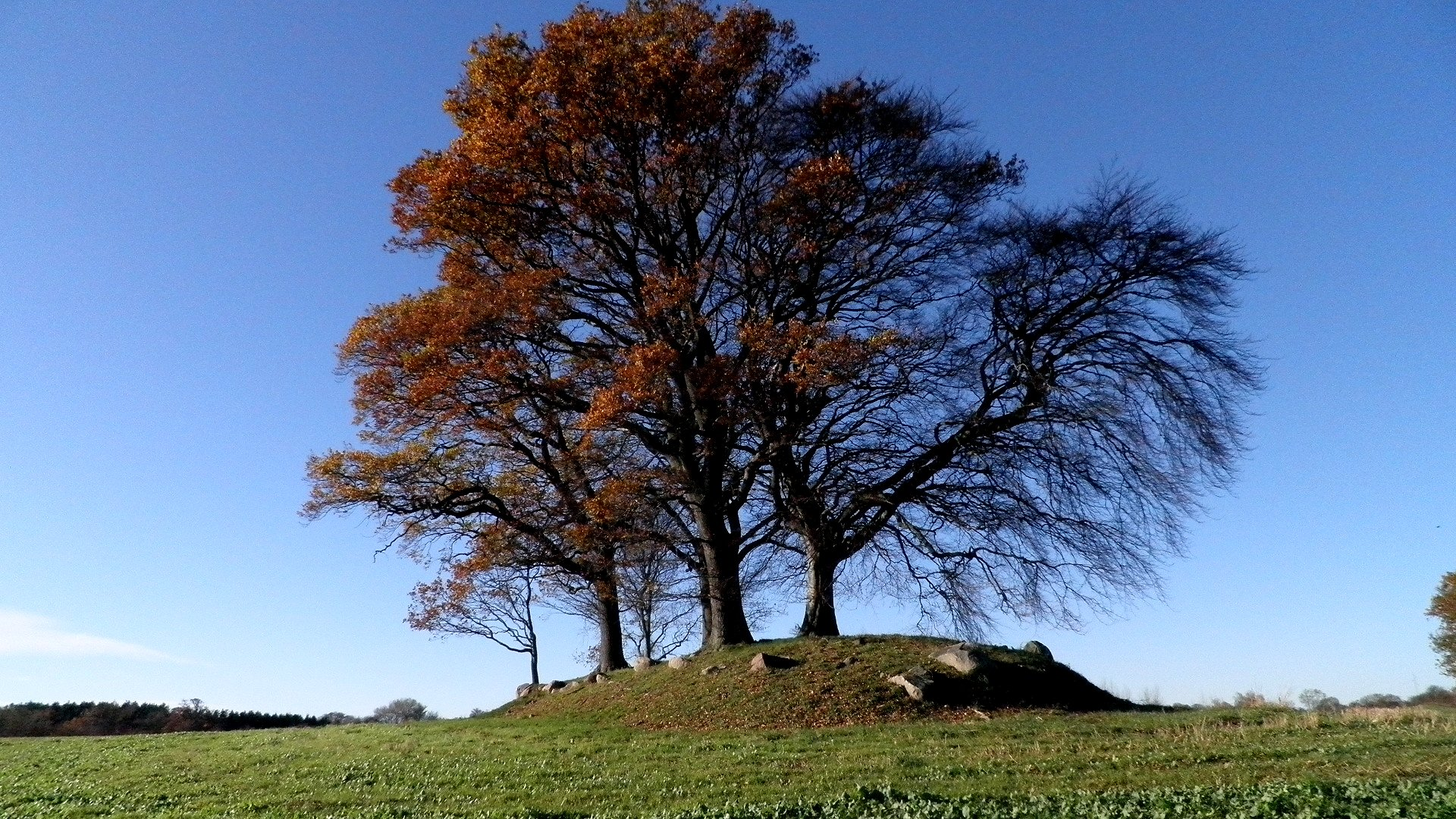 Løkkeby Long barrow from the Stone Age on Langeland in Denmark.